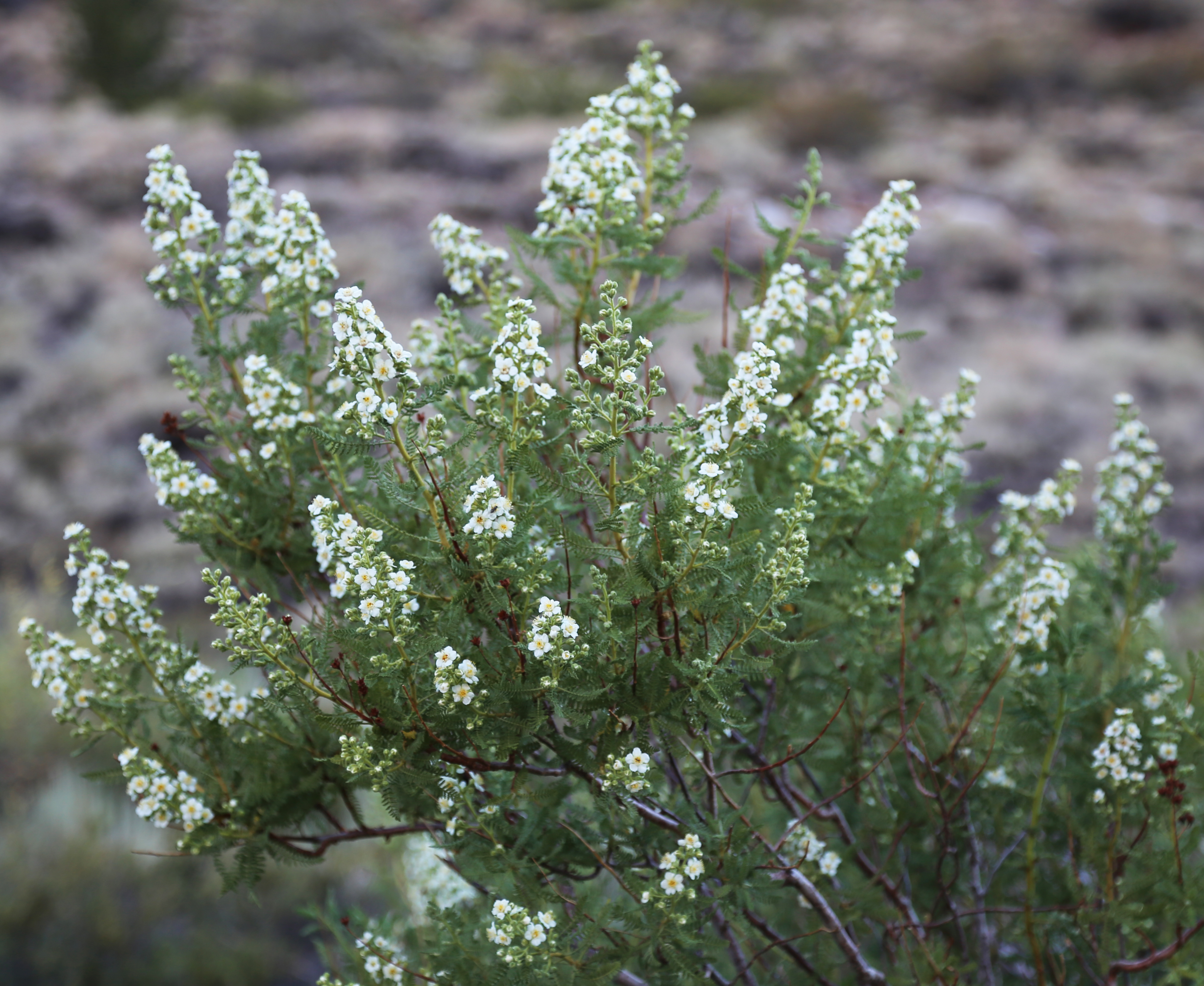 Fern bush (Chamaebatiaria millefolium), branches with leaves and flower clusters. At about 7000ft, along road from Rovana up Pine Creek, Inyo County, California USA.